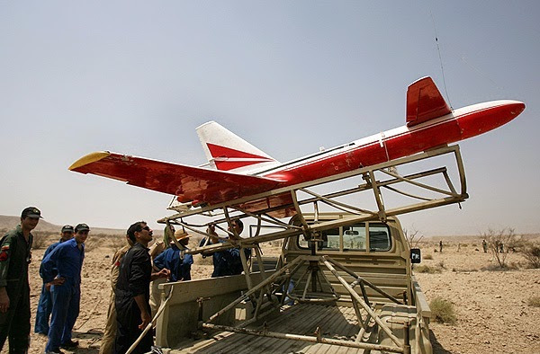 Preparations for a JATO launch of an Ababil-B UAV for IRIN gunnery training, Blow of Zolfqar exercise, 2006.